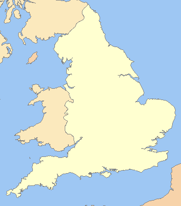 A blank map of the England, inside the United Kingdom